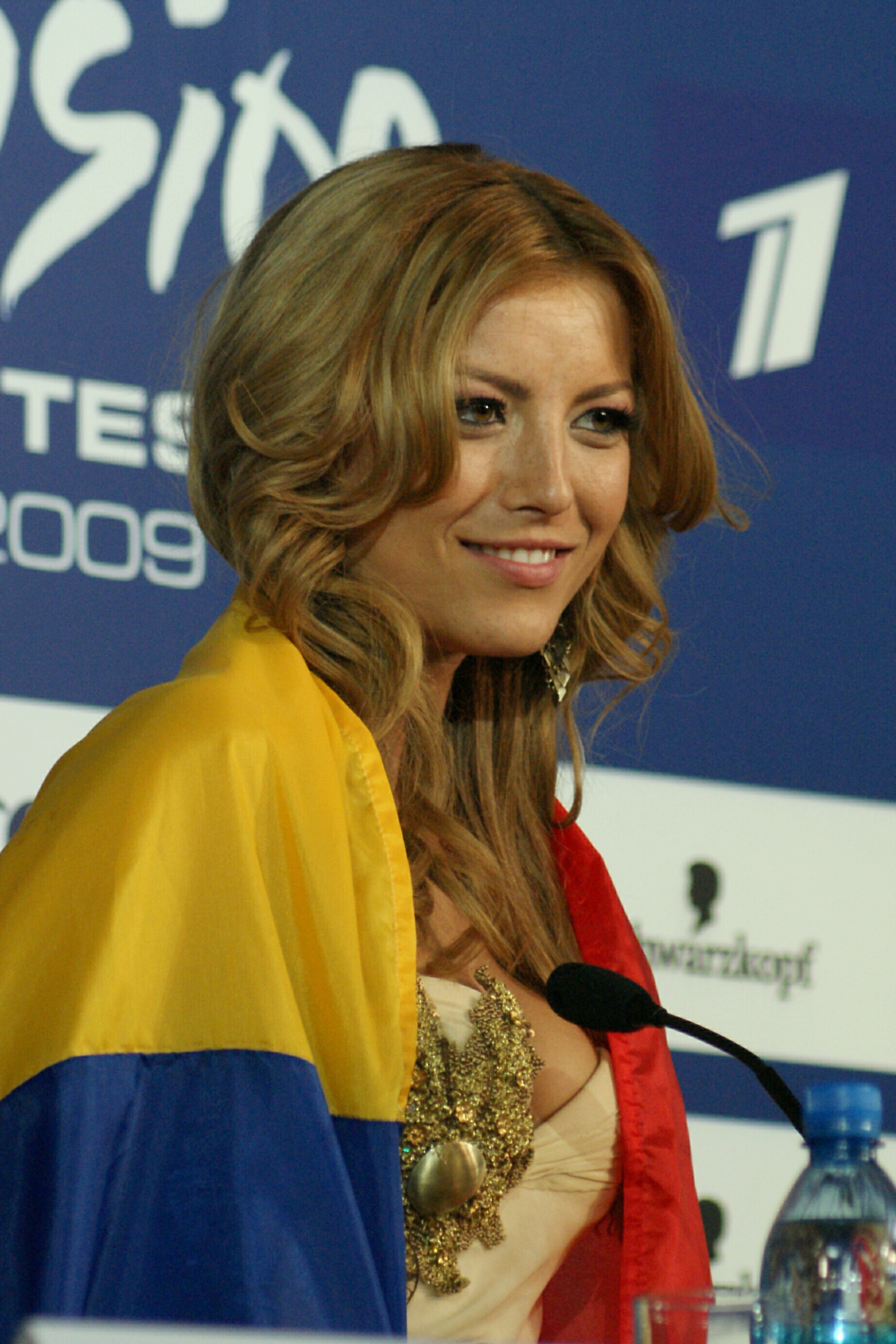 Romanian singer Elena Gheorghe in Moscow (2009)